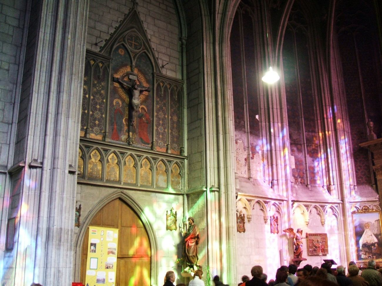 Parroquia de Santa María (ex Capilla de Santiago de la Catedral de Santa María), Vitoria-Gasteiz, País Vasco, España